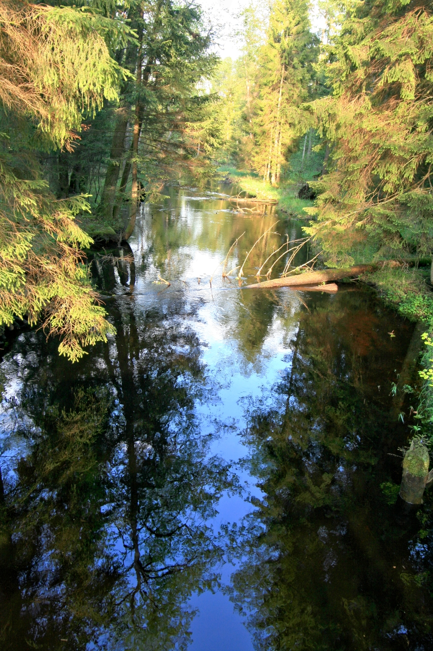 Viešvilė State reserve, river Viešvilė